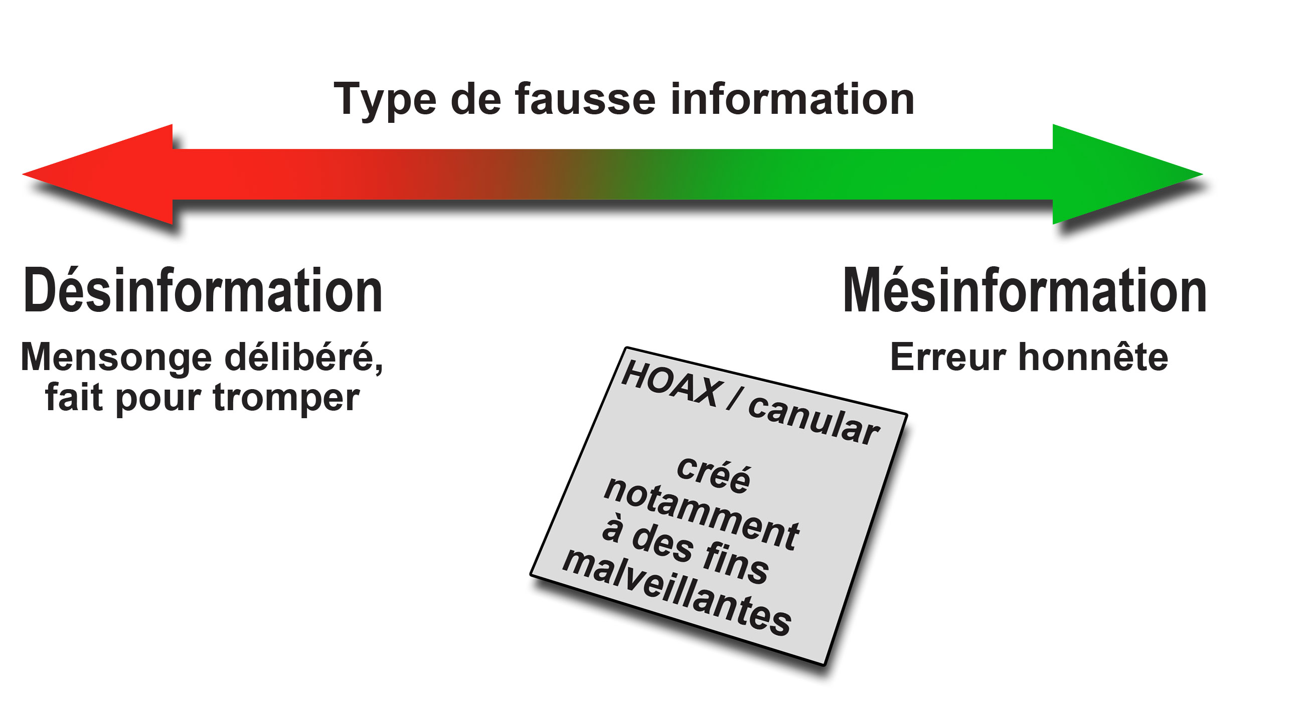 Disinformation vs Misinformation - slide 5 out of 31 from: Slides for "Disinformation on the Web: Impact, Characteristics, and Detection of Wikipedia Hoaxes" presentation in Wikimedia research showcase. Presented for Wikimedia Research (18 November 2015). Research project at Research:Understanding hoax articles on English Wikipedia. (from :Srijankedia)